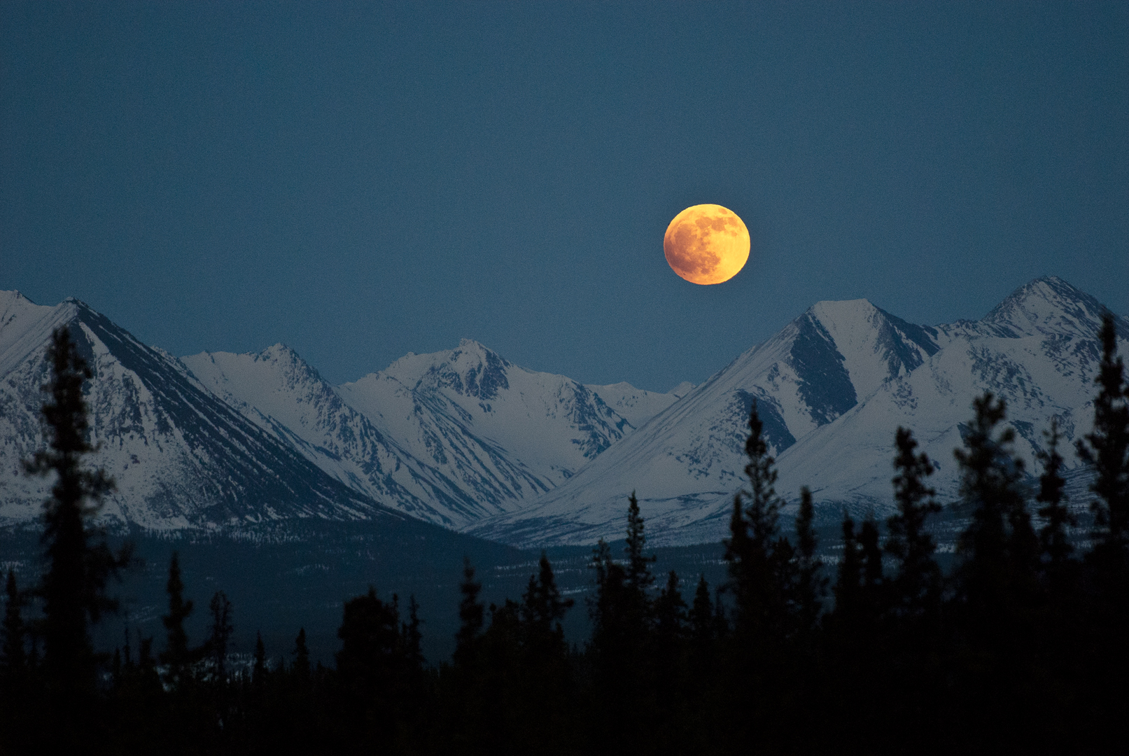 A full moon rises over the mountains. (NPS Photo/Katie Thoresen)